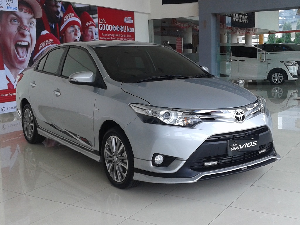 2017 Toyota Vios 1.5 TRD Sportivo (NSP151R-CEMGKD), photographed in Jakarta, Indonesia.